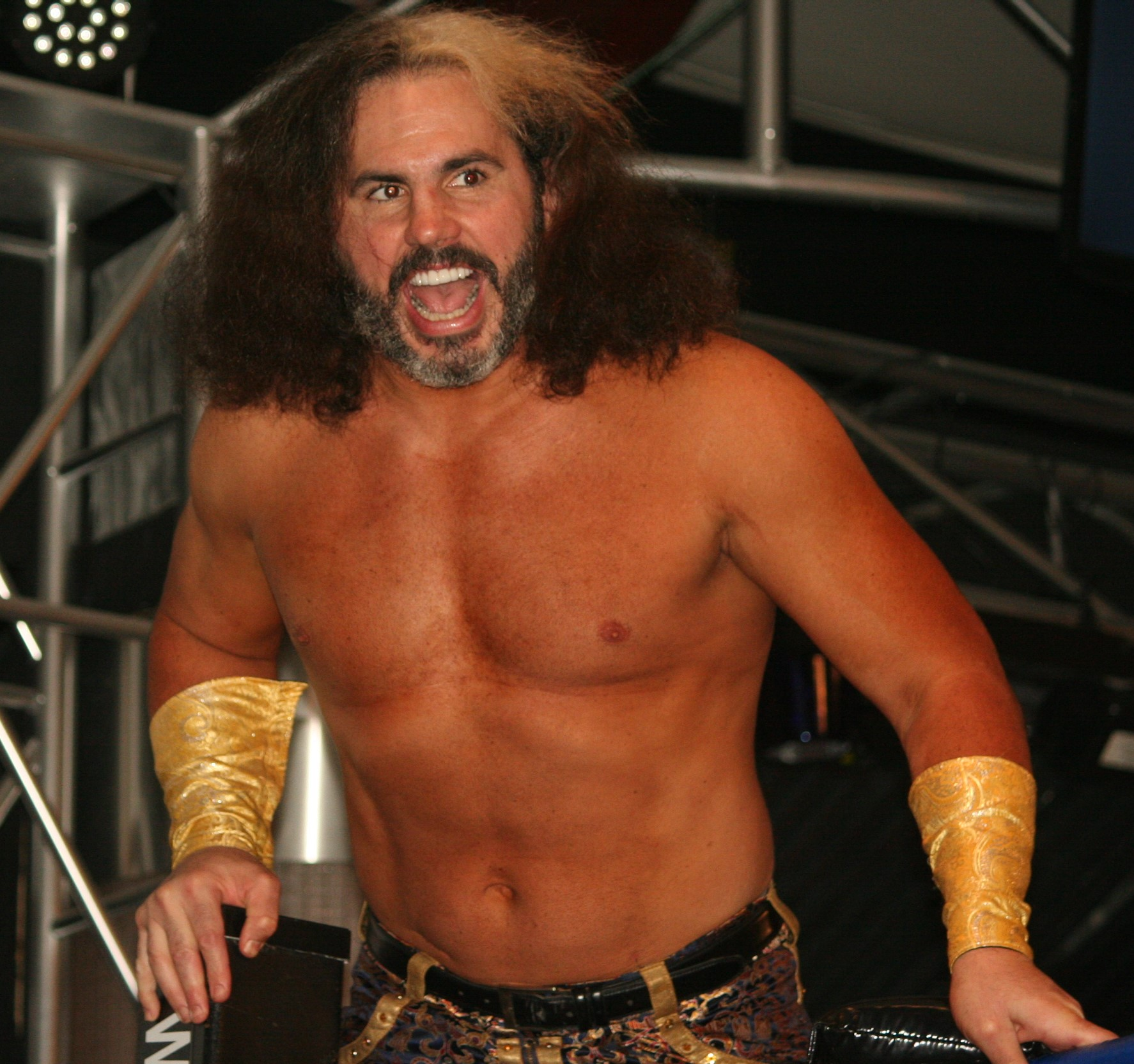 This image shows professional wrestler Matt Hardy as his 'Broken' Matt Hardy character at a Carolina Wrestling Federation (CWF) Mid-Atlantic independent show on January 29, 2017.